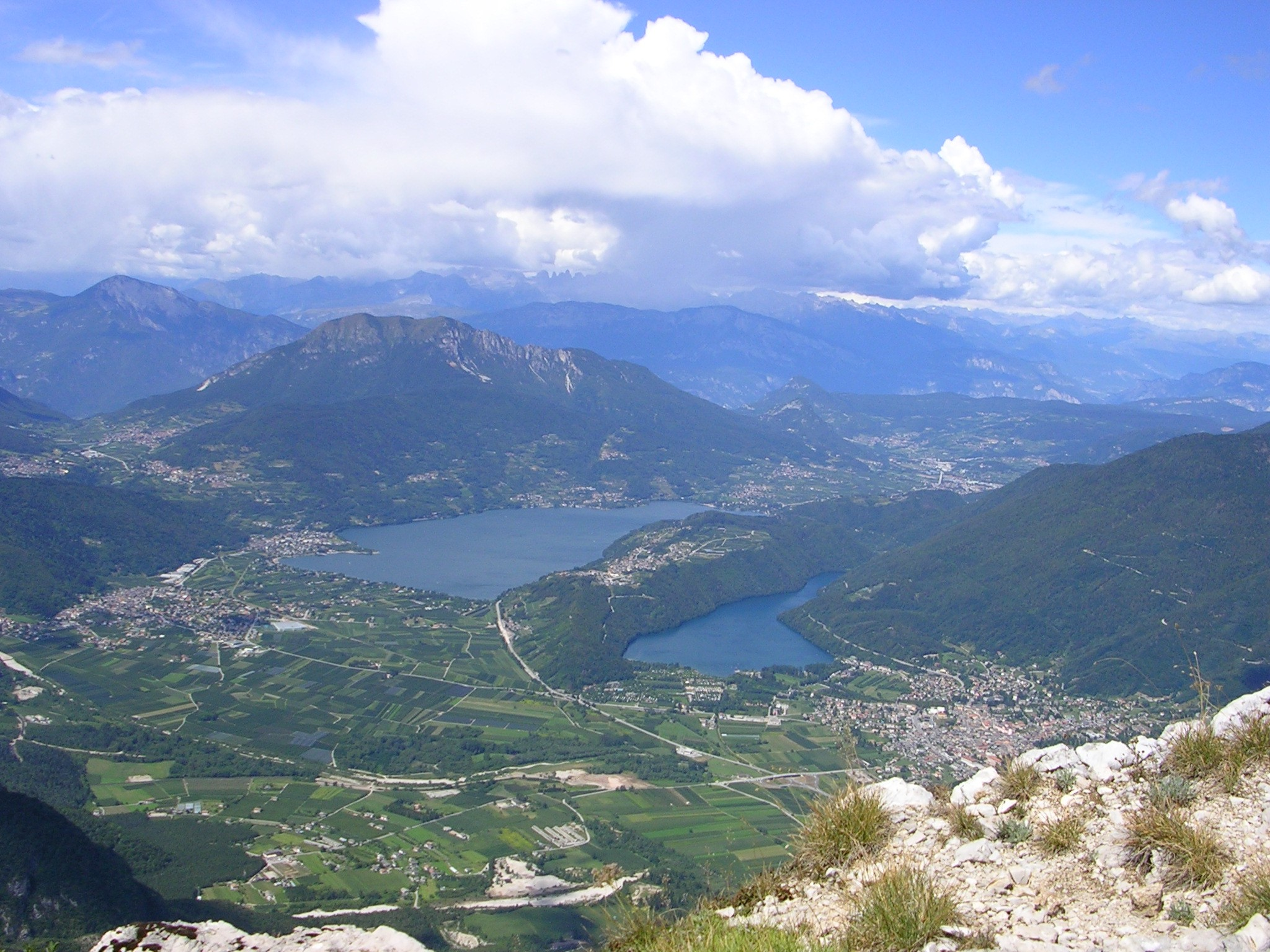 View of Upper Sugana Valley on Caldonazzo and Levico lakes (Trento), Italy